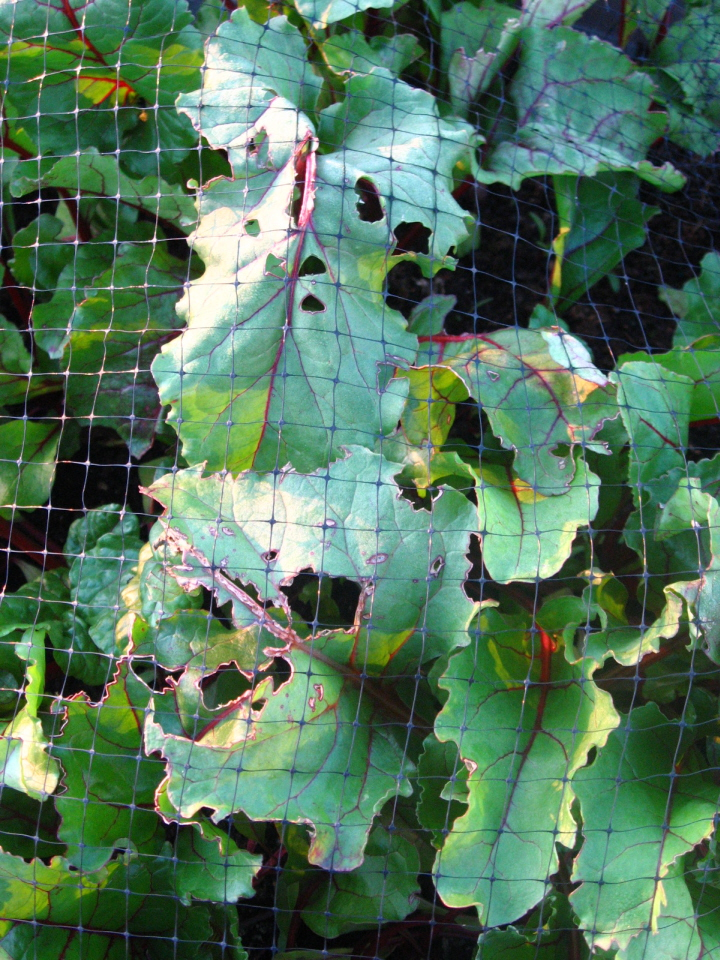 Beet greens partly eaten by cabbage moth larvae. These Detroit Dark Red beets are being grown outdoors in a plastic tub and are covered with netting to prevent birds from eating the young plants.